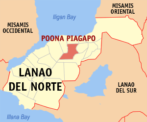 Map of the Lanao del Norte showing the location of Poona Piagapo